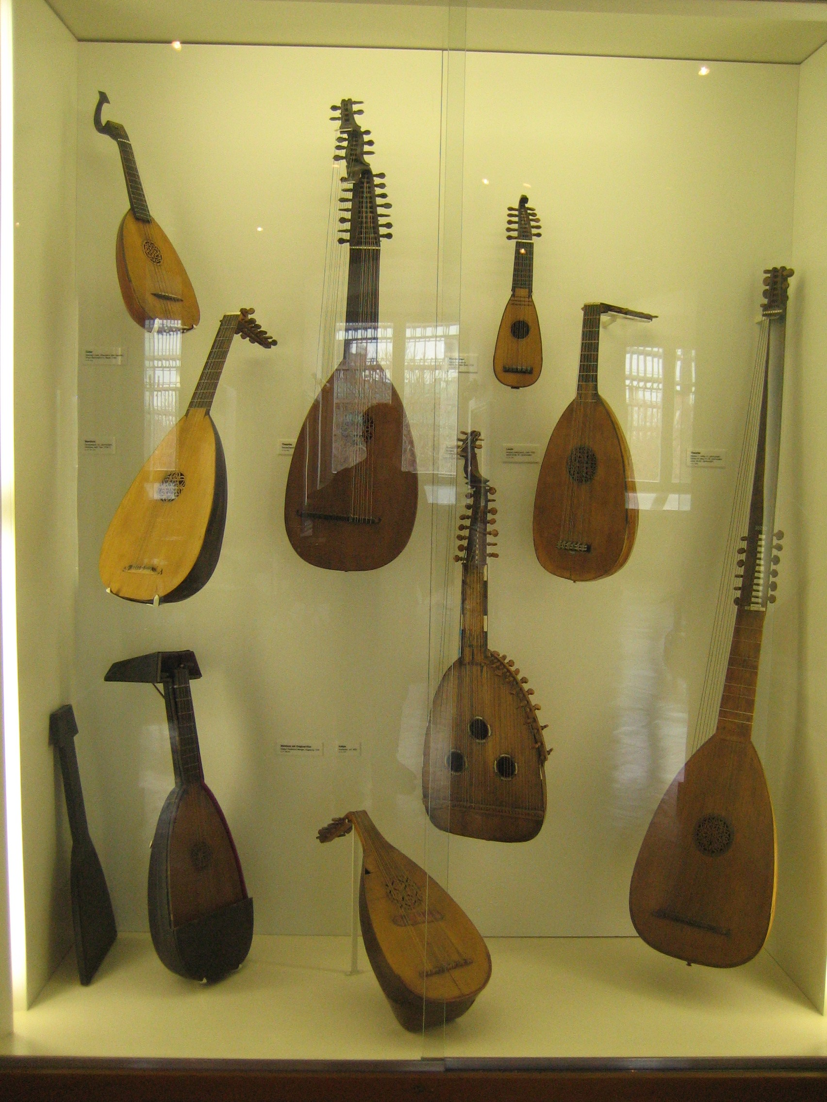 Deutsches Museum (121282543) upper left Bowl-back cittern [with a sickle-shaped head and a watch-key machine] (before 1782. 6 string) [DMO 5442][1] most right Theorbo [DMO 35252][2]